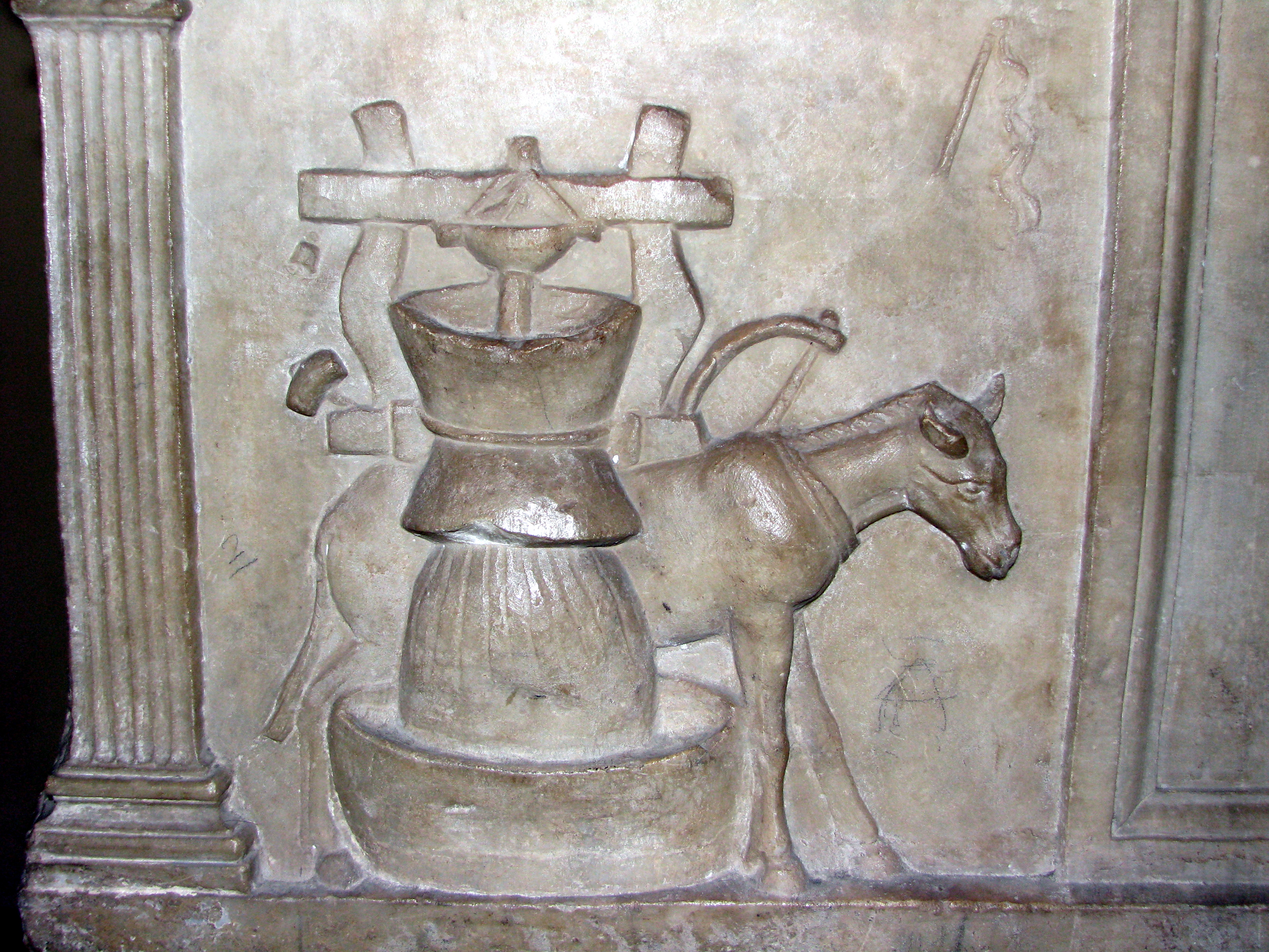 Urn holder of the miller Publius Nonius Zethus, found in Ostia Antica, now in the Museum of the Vatican. The Urn holder contains 8 slots for urns, with the remains of one urn still in place. The front shows milling operations on the left and the tools of a baker on the right. From the 1st century AD. Closeup of left front, the animal is an ass.